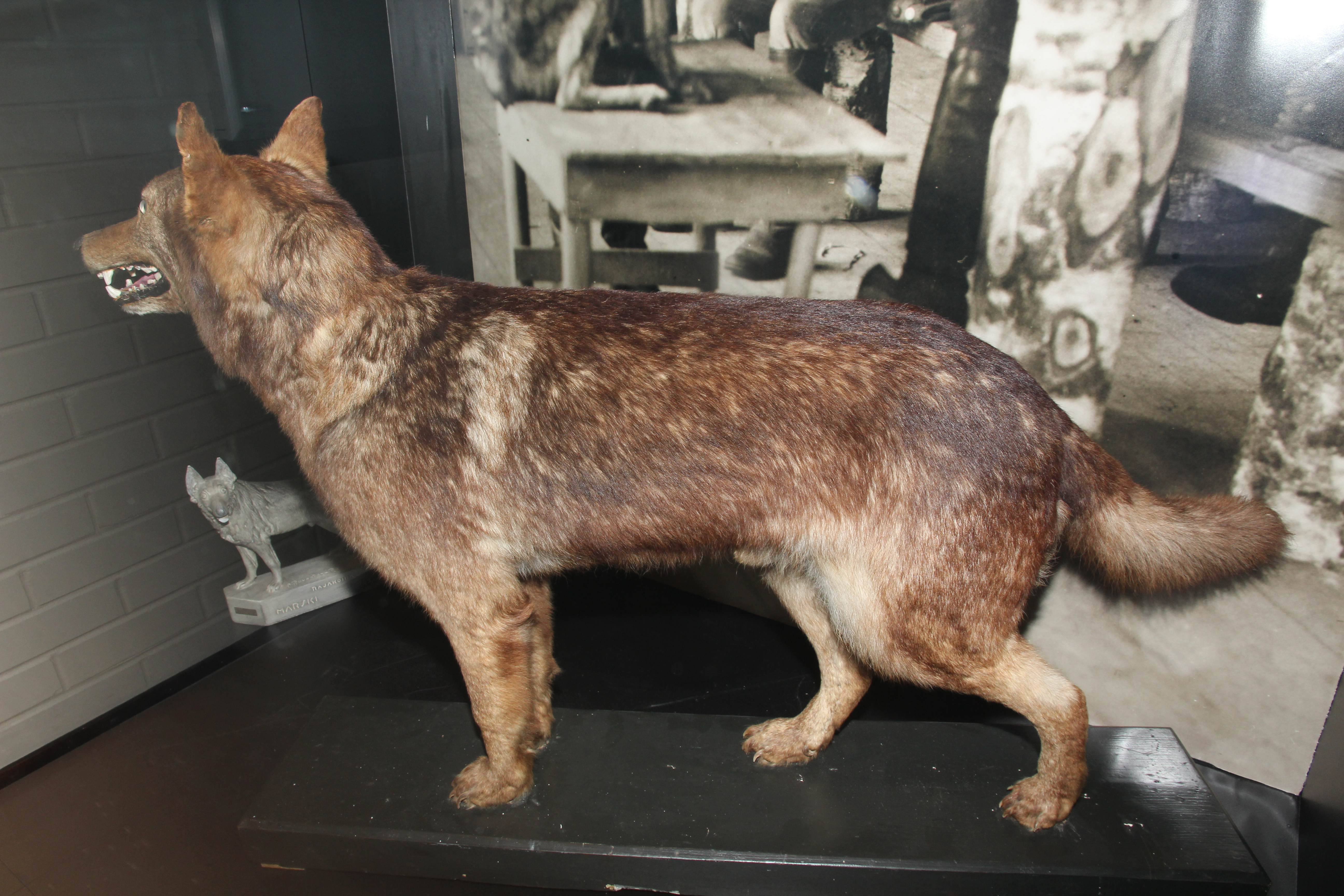 First Finnish border guard dog Caesar "Terror of Lapland" taxidermied (in 1929) in Imatra Border Museum.